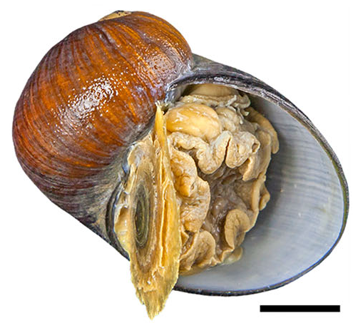 Photo of adult specimen of Gigantopelta chessoia from E2 Segment, East Scotia Ridge, Southern Ocean. Scale bar is 1 cm.